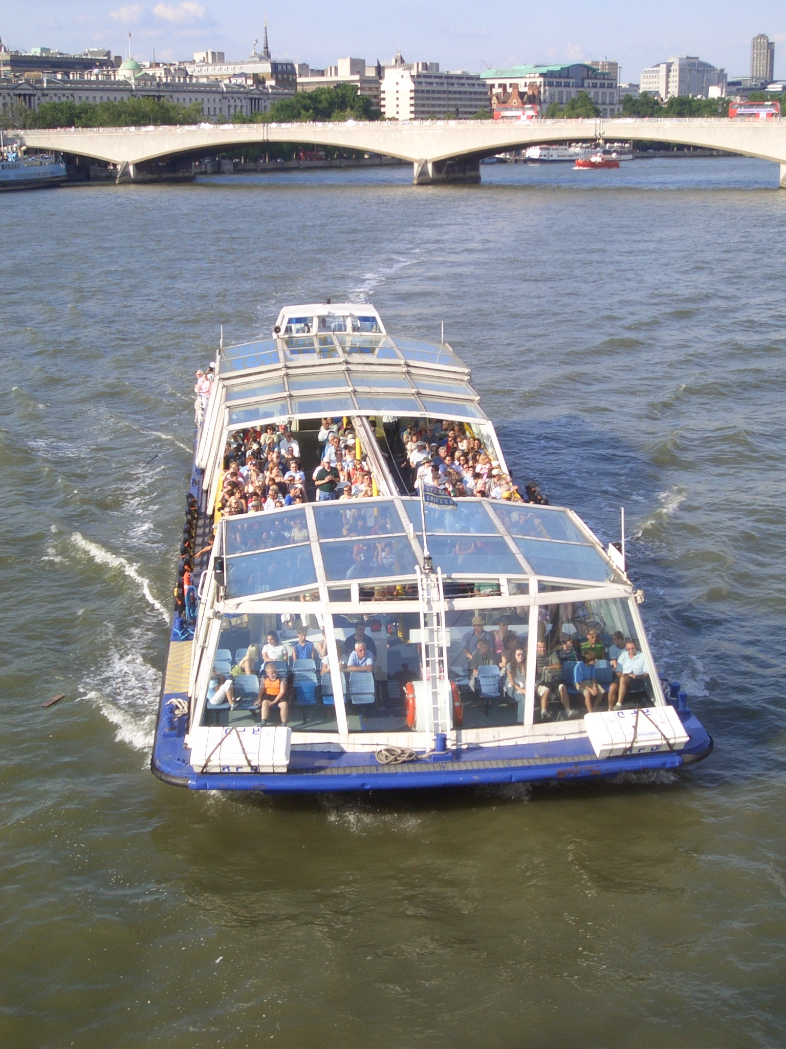 Photo of London River Services. Catamaran Cruisers ship is unidentified.